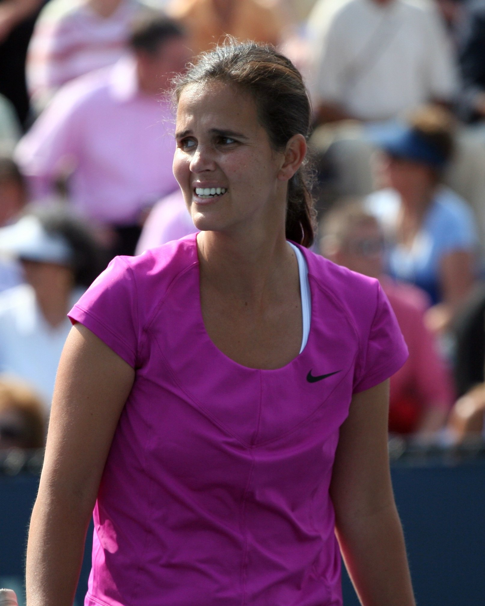 U.S. Open Champions Team Tennis Wednesday, Sept. 9, 2009